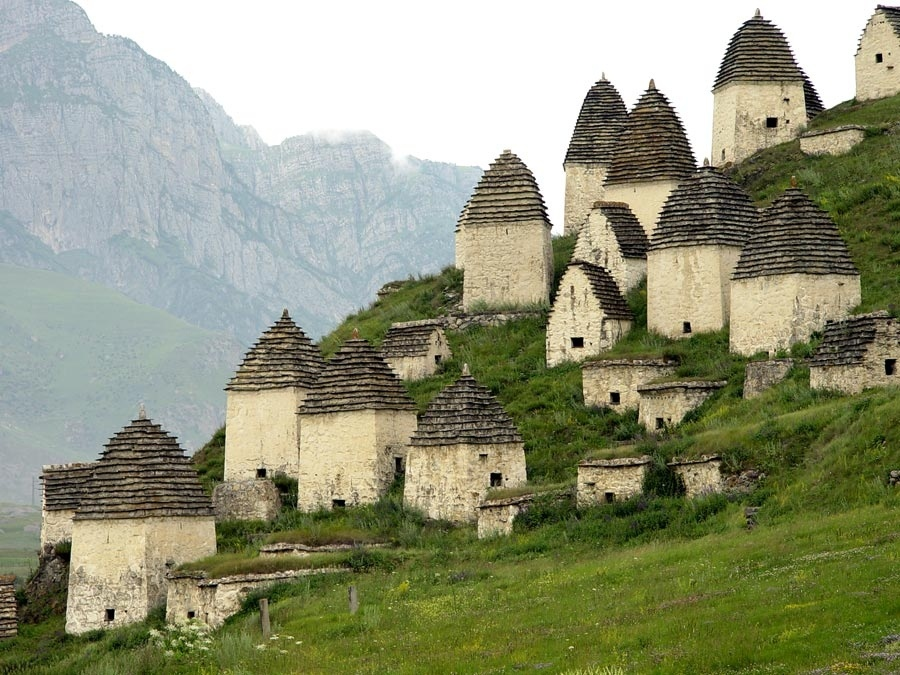 In Dargavs. North Ossetia. Ирон: Дæргъæвсы зæппæдзтæ.